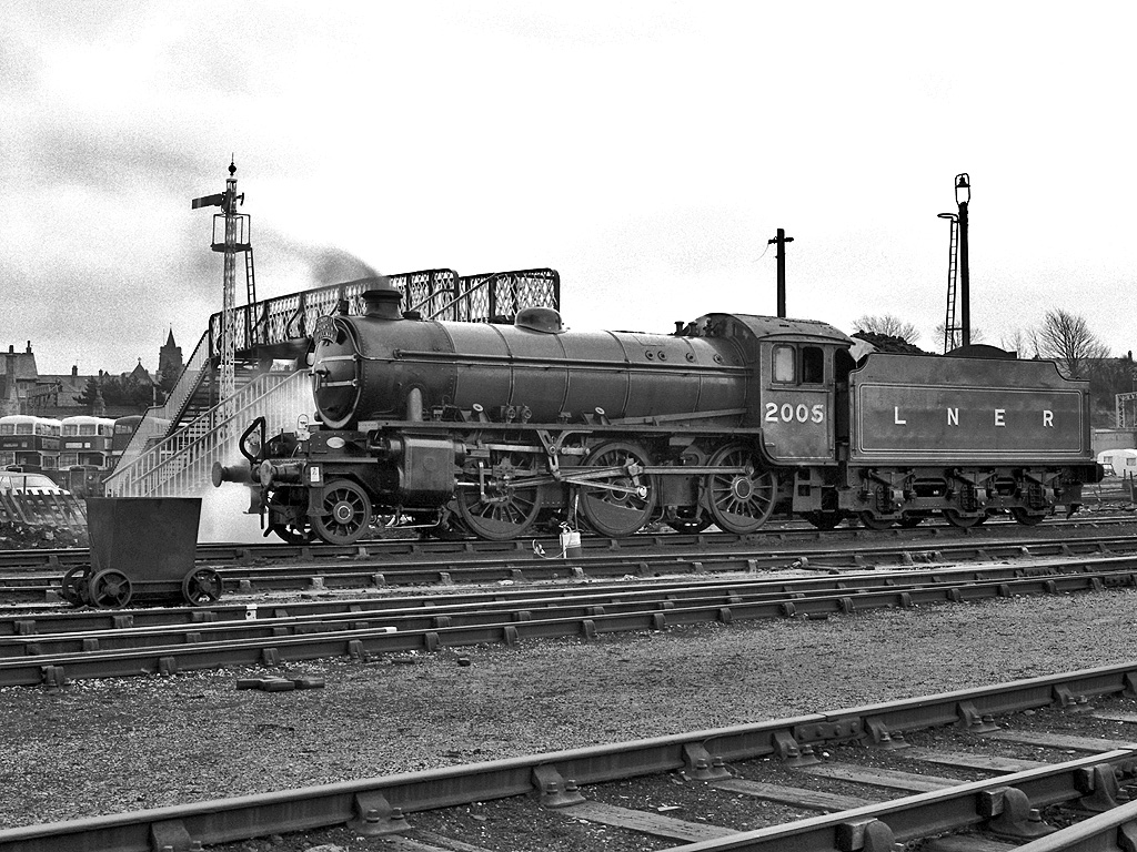 British Railways Thompson 5P6F 2-6-0 'K1' class locomotive number 62005 (painted as London and North Eastern Railway number 2005) at Steamtown Railway Museum at Carnforth prior to working a London Euston to Carlisle 'Cumbrian Mountain Pullman' charter from Carnforth to Hellifield. Saturday 5th February 1983